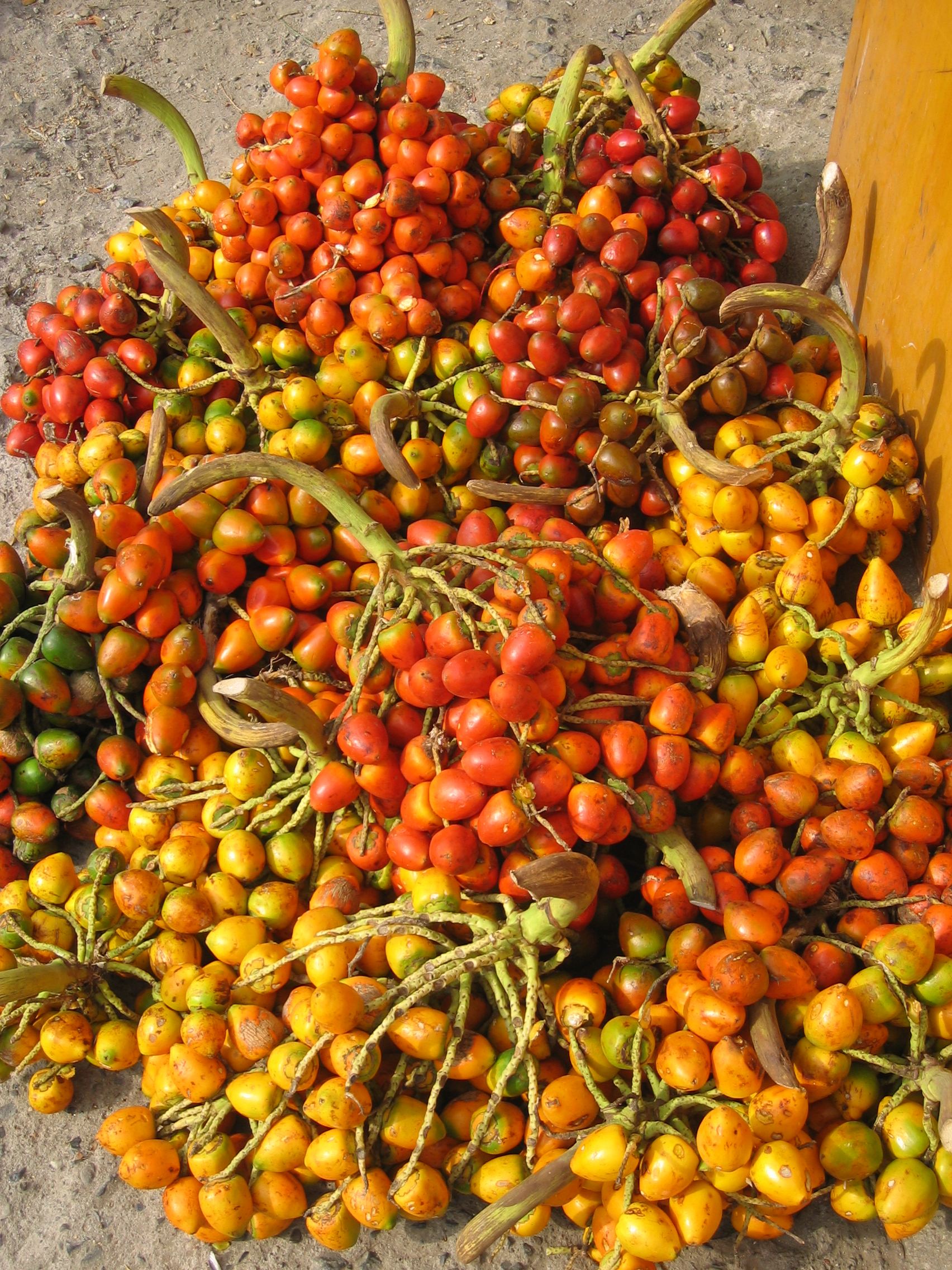 Chontaduro (Bactris gasipaes) at Cali